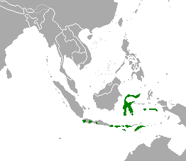 Native range of the Javan deer (Rusa timorensis) including possible ancient introductions